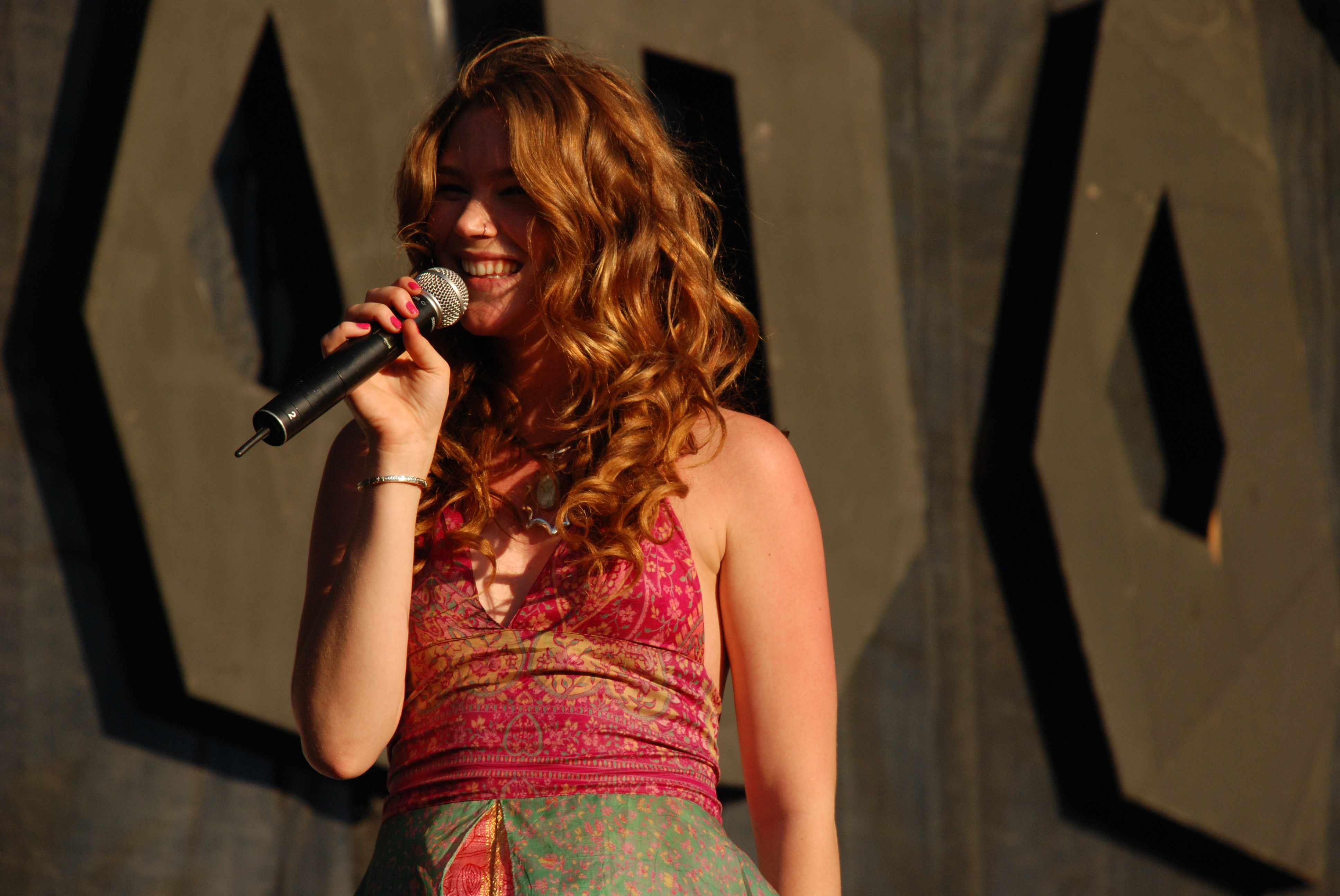 Joss Stone at Voodoo Music Festival, New Orleans.